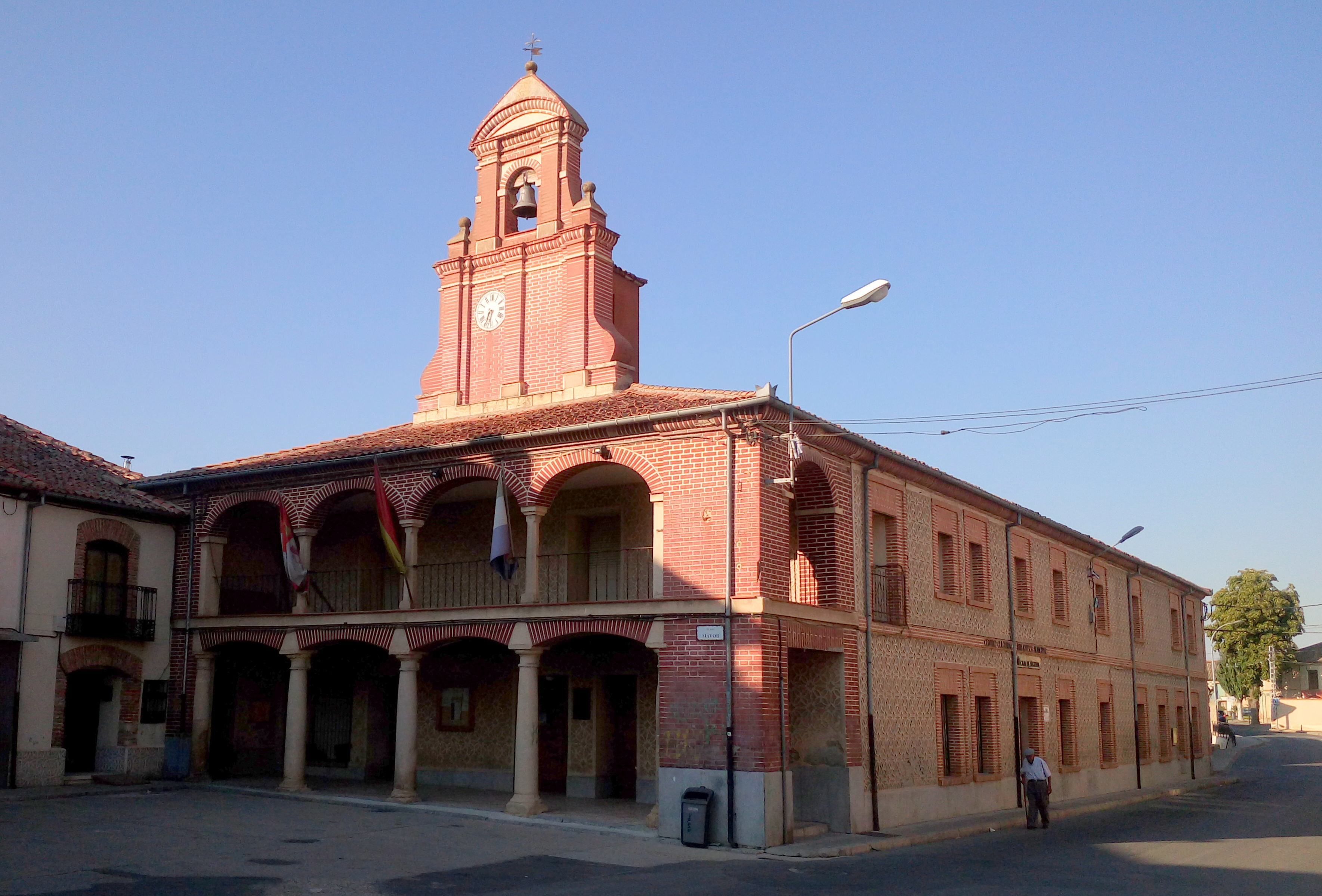 Town hall in Mozoncillo, Segovia, Spain.